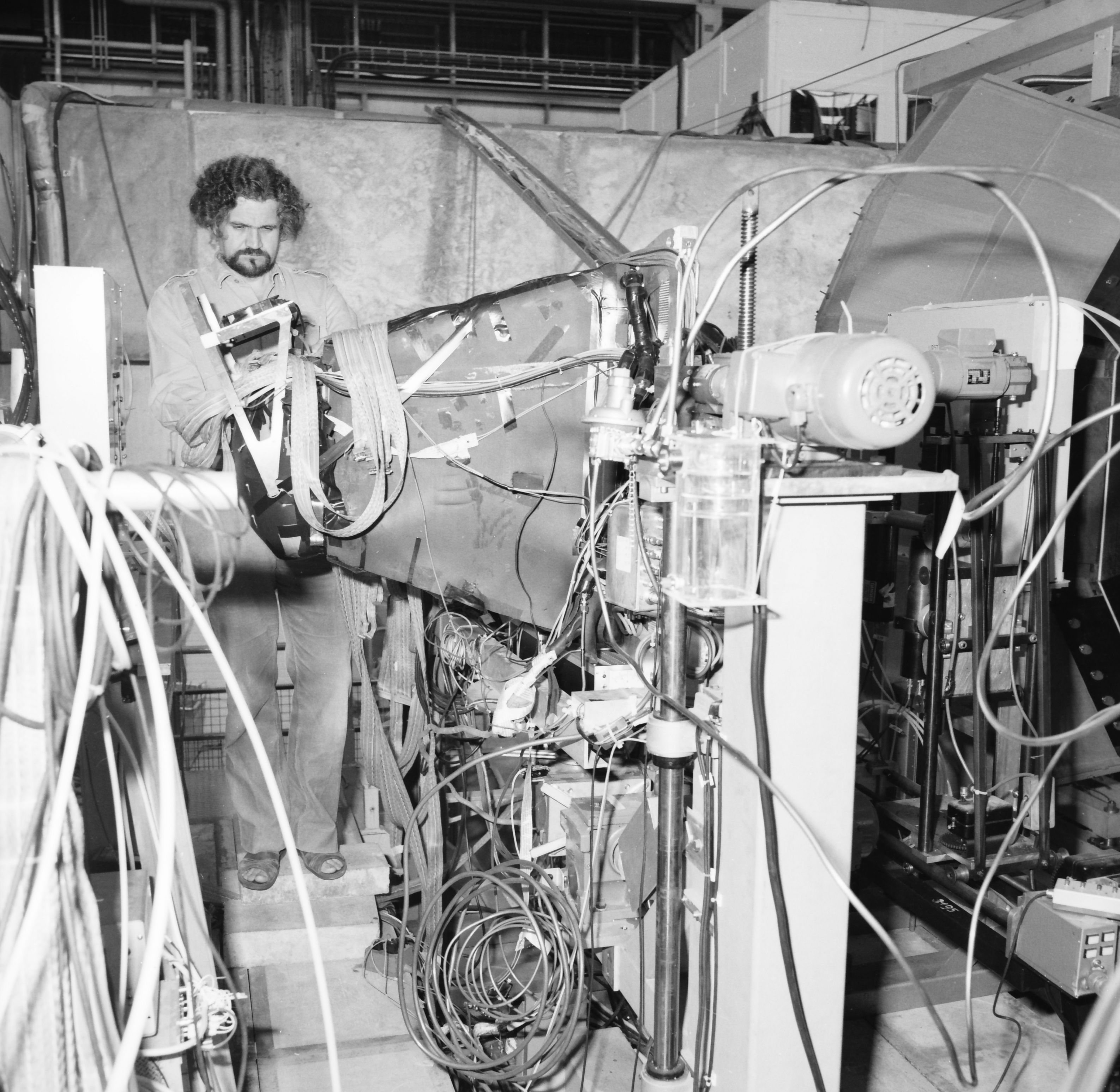 Tord Ekelöf working on the experimental setup of the UA2 RICH experiment at CERN.